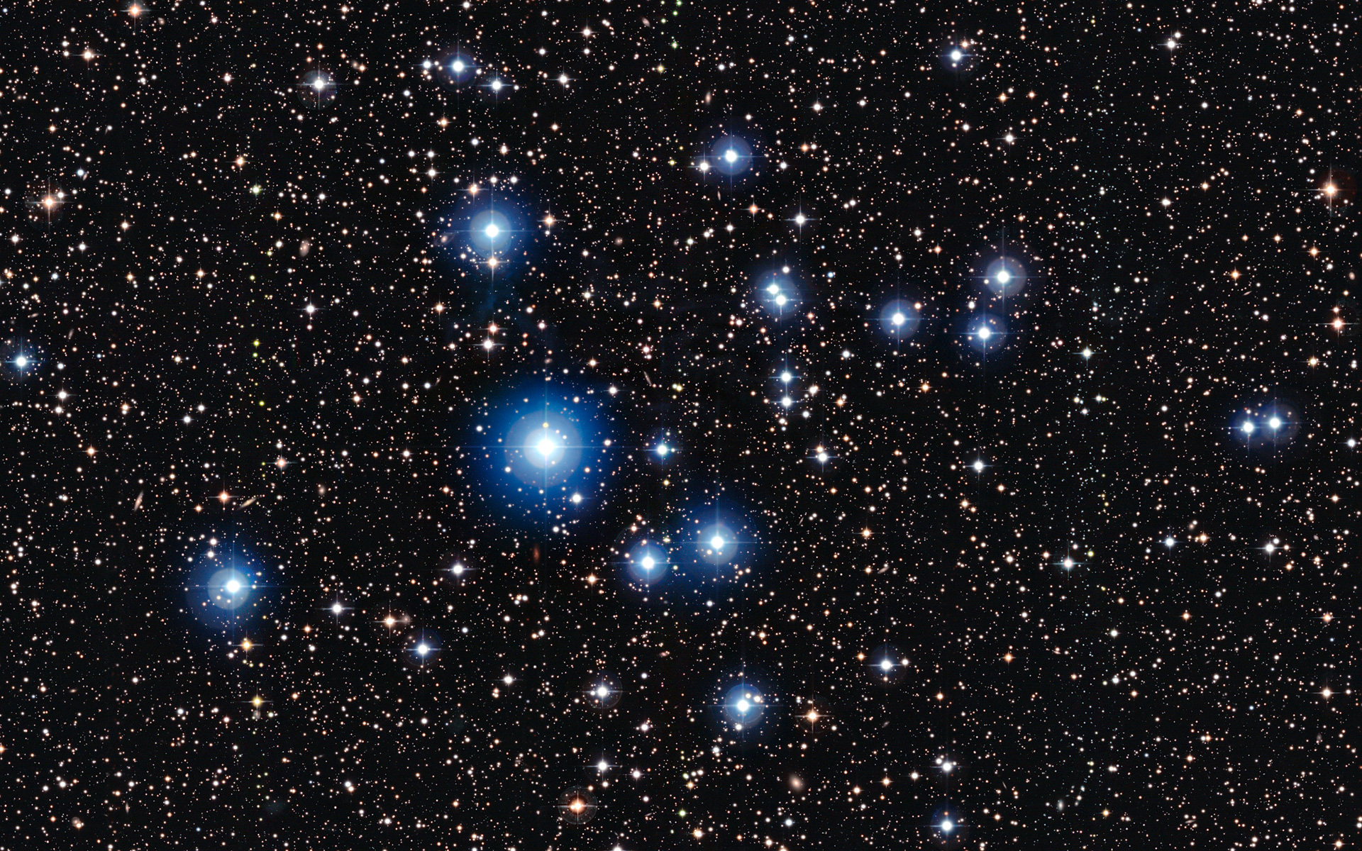 This image from the Wide Field Imager on the MPG/ESO 2.2-metre telescope at ESO’s La Silla Observatory in Chile, shows the bright open star cluster NGC 2547. Between the bright stars, far away in the background of the image, many remote galaxies can be seen, some with clearly spiral shapes.